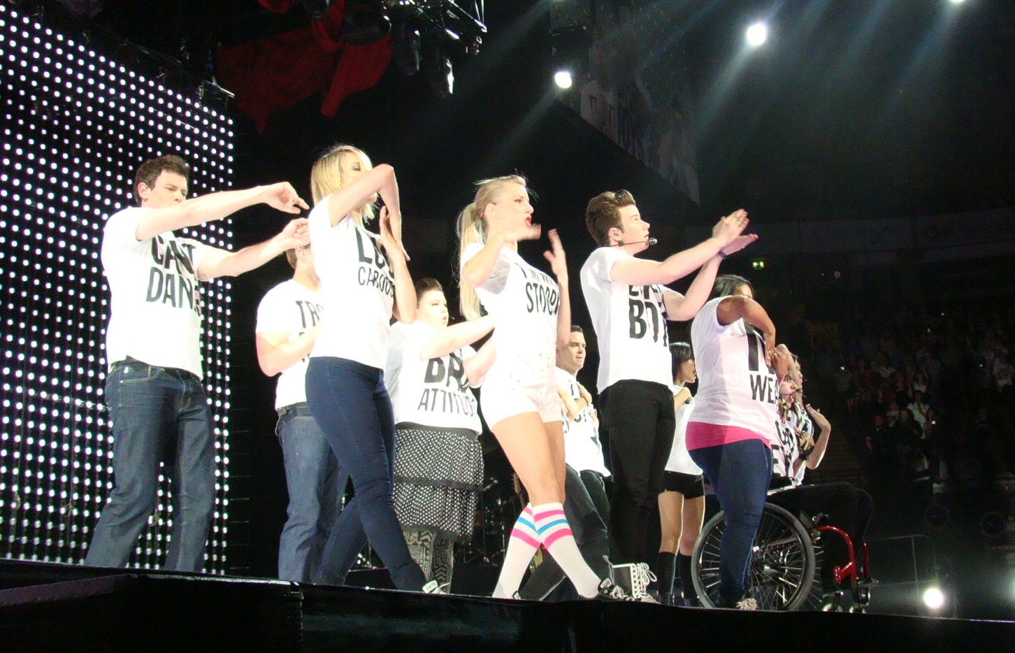 Born This Way